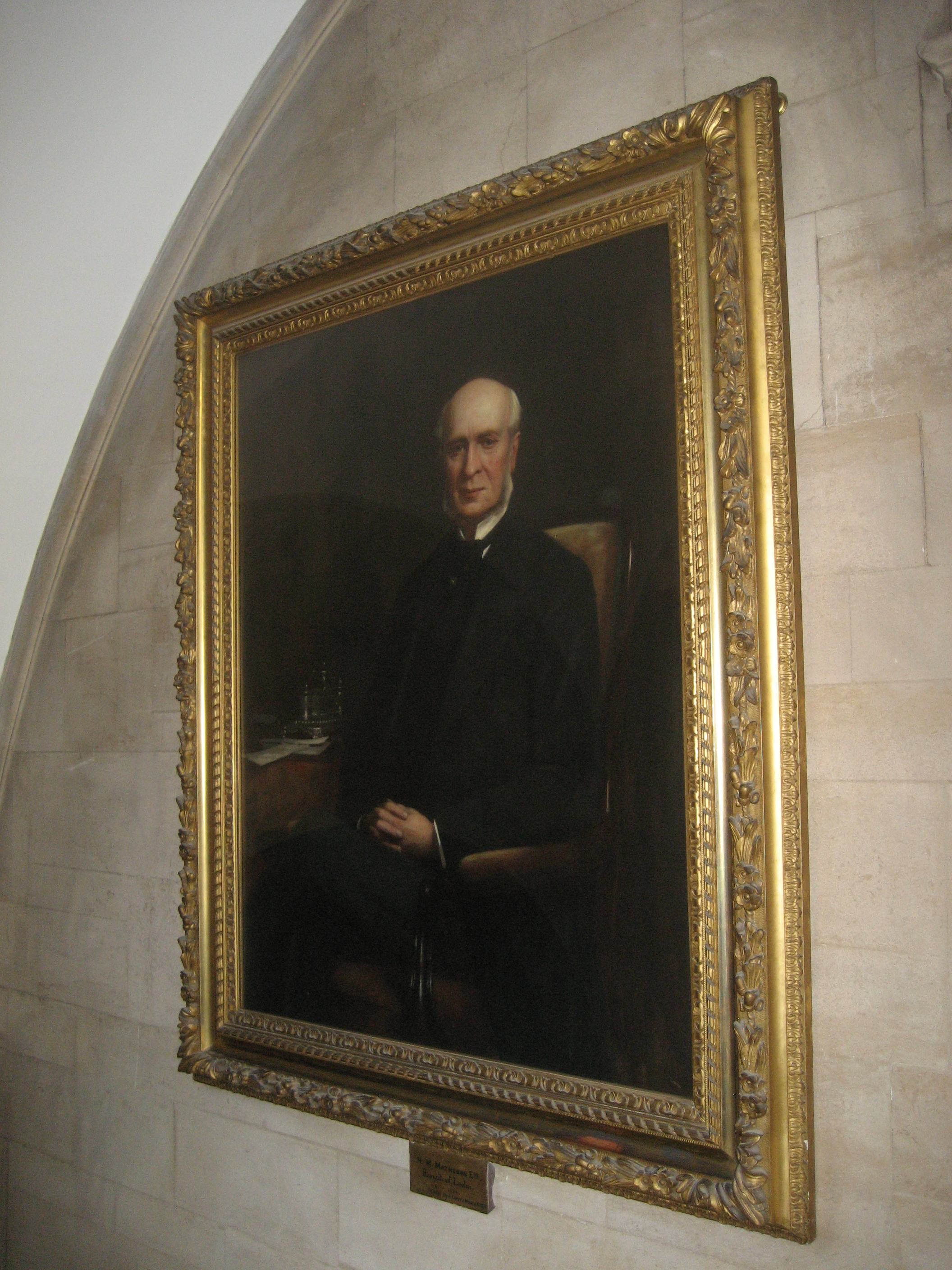 Painting of Hugh Mackay Matheson (1821-1898, industrialist) by James Coutts Michie (1859-1919), in Westminster College, Cambridge, England (United Kingdom)